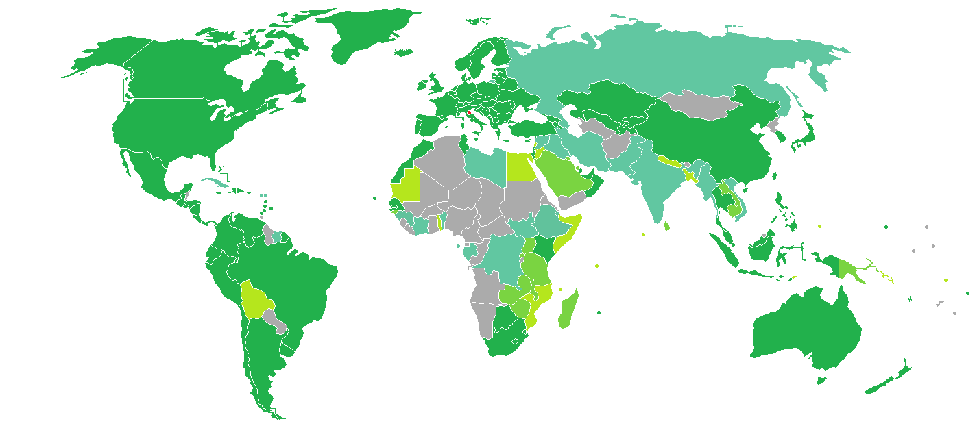 Visa requirements for San Marino citizens San Marino Visa free access Visa on arrival eVisa Visa available both on arrival or online Visa required